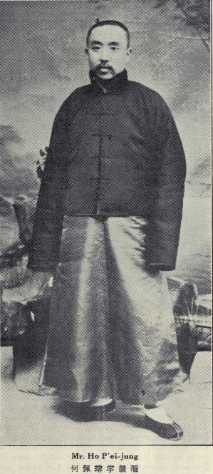 He Peirong, Yunshan (1880 - 1942)